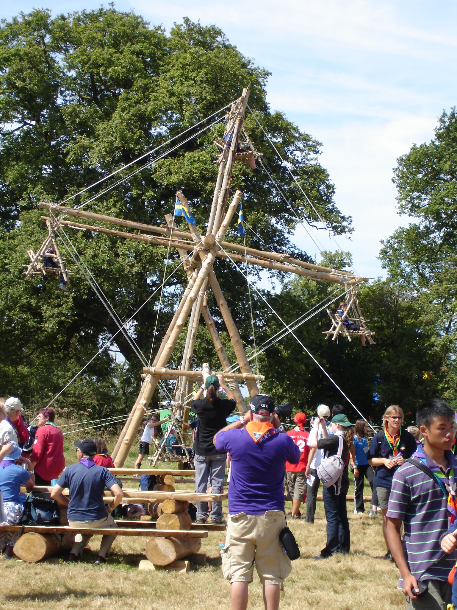 This is a ferris wheel built out of pioneering poles by the Swedish contingent for the World Scout Jamboree 2007